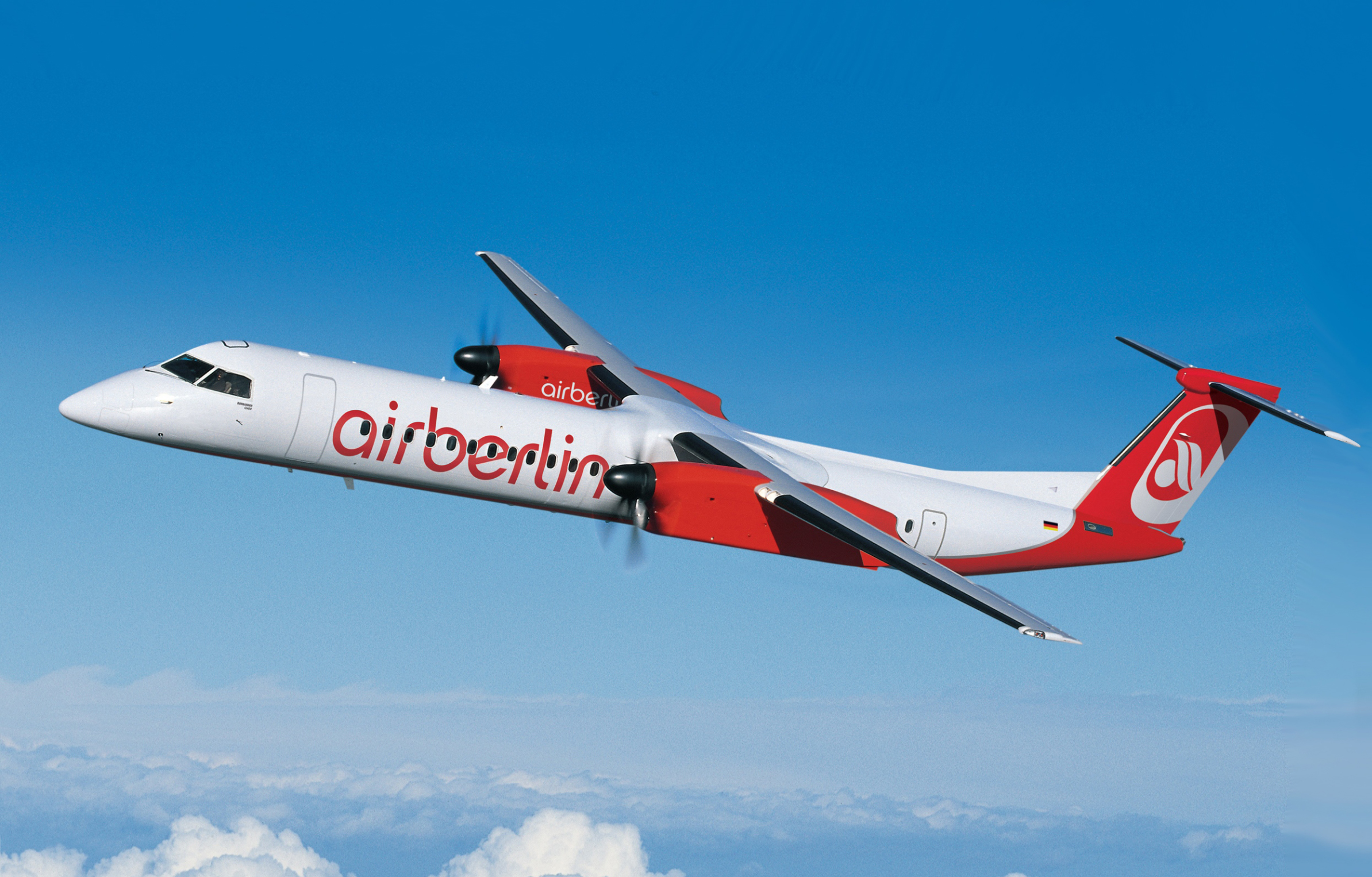 Bombardier Q400 in Air Berlin livery